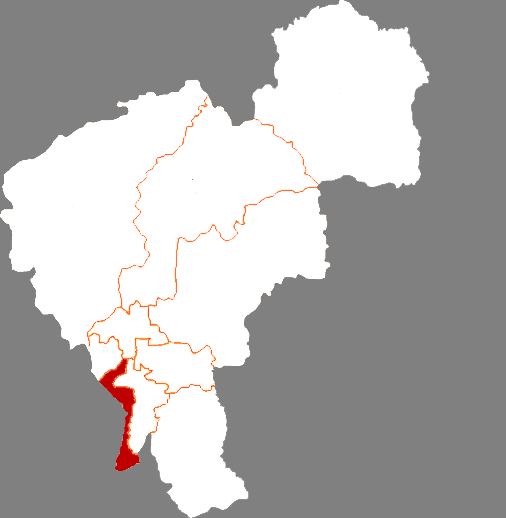 Location of Chaoyang district in Changchun City, China